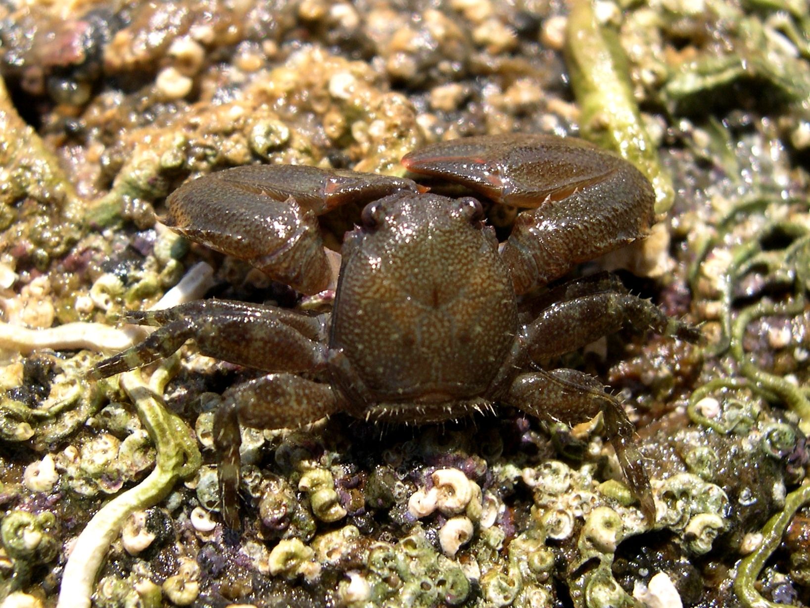 Petrolisthes japonicus (de Haan, 1849) from Miura, Kanagawa, Japan.